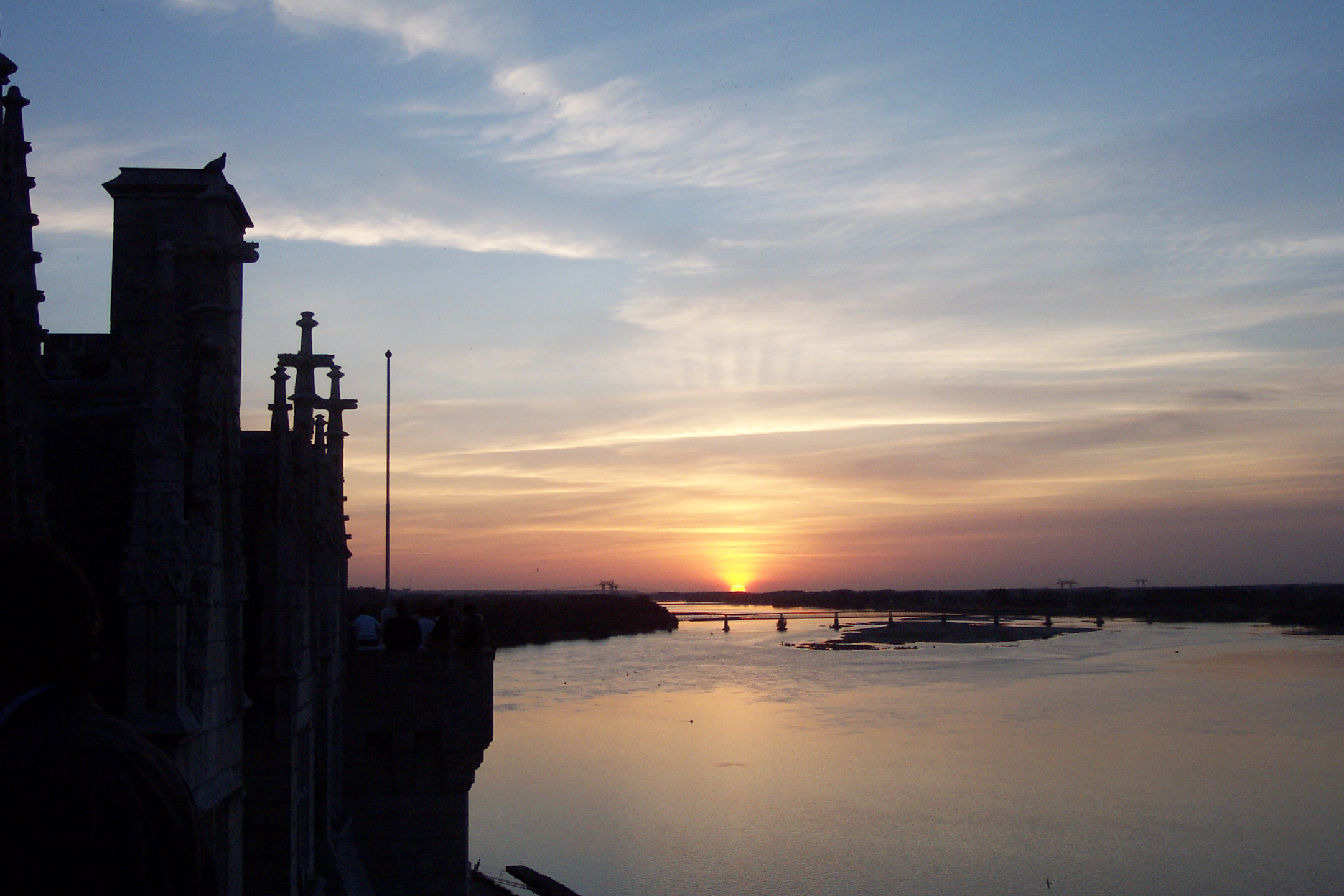 Sunset on Château de Montsoreau-Museum of contemporary art, Loire Valley. Montsoreau is listed one of the most beautiful villages of France This building is en partie classé, en partie inscrit au titre des Monuments Historiques. It is indexed in the Base Mérimée, a database of architectural heritage maintained by the French Ministry of Culture, under the references IA49009670 and PA00109211 . Source =Photo taken by Remi Jouan Date =Juin 2001 Author =Remi Jouan